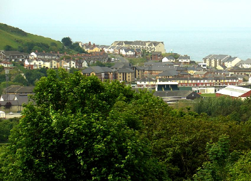 Photographed by myself on 23 May 2007. The NLW commands an unparalleled panoramic view over Aberystwyth and Cardigan Bay. Aeronian's images User:Aeronian/Images